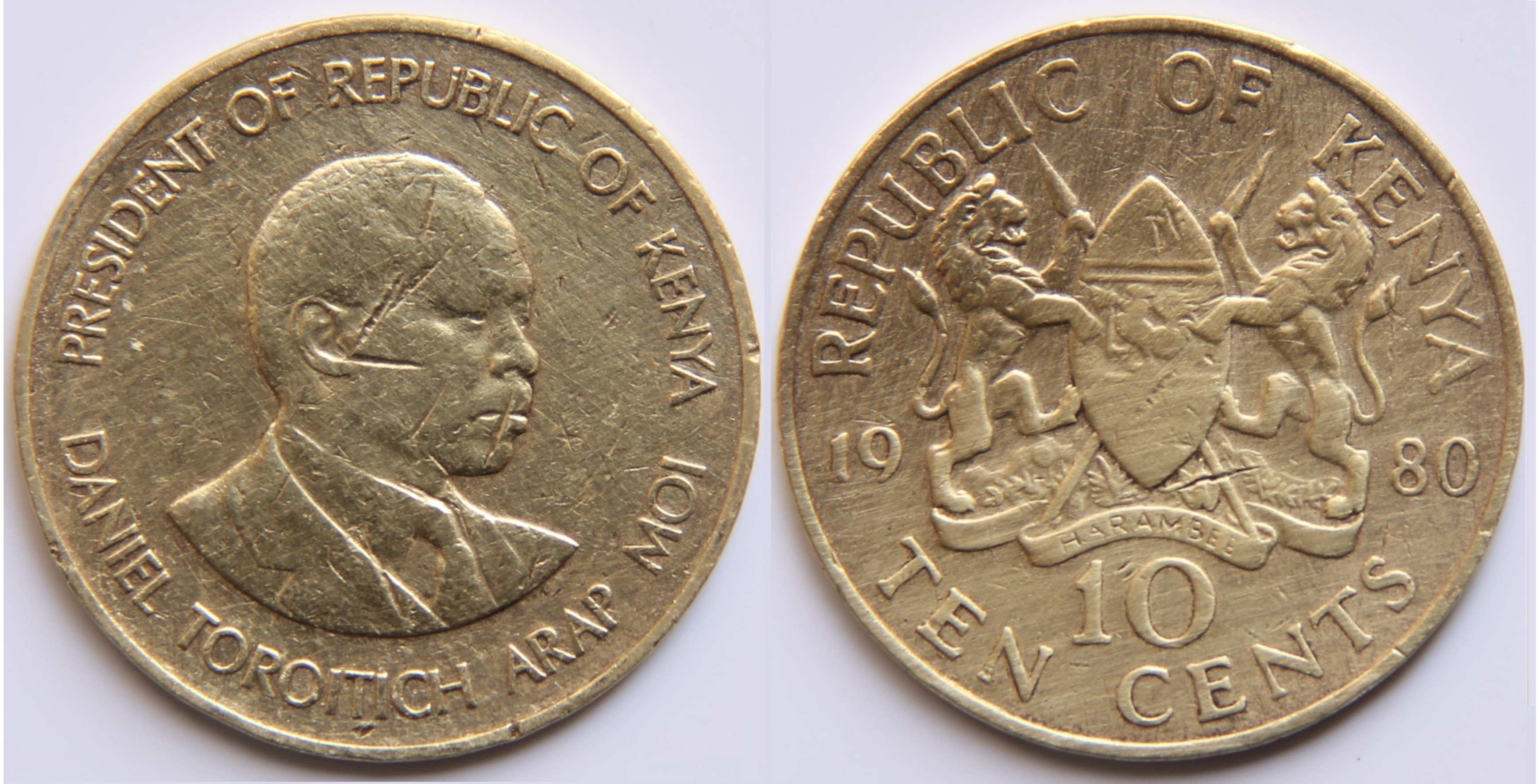 Face value: 10 Kenyan cent. Country: Kenya. Year of minting: 1980. Metal: Nickel brass. Shape: Round. Obverse: Bust of Daniel arap Moi with lettering "PRESIDENT OF REPUBLIC OF KENYA DANIEL TOROITICH ARAP MOI". Reverse: Face-value, year, Coat of arms of Kenya and country name. Edge: Plain. Weight: 9.4 g. Diameter: 30.8 mm. Thickness: 1.76 mm. Orientation: Medal alignment ↑↑. Total mintage: . Engraver: Not known. Krause catalog #: KM# 18. Monetary status: In use. Comments: . Data source: This webpage.